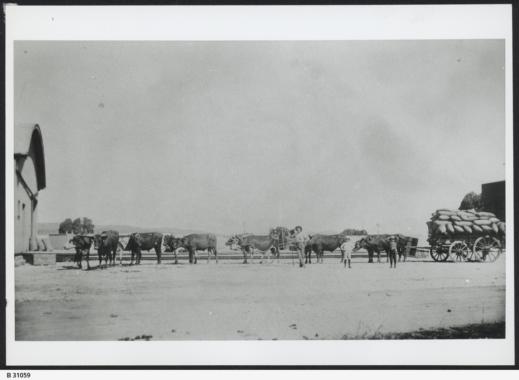 Norman Wheller with his bullock team at Farrell Flat, South Australia in 1911.